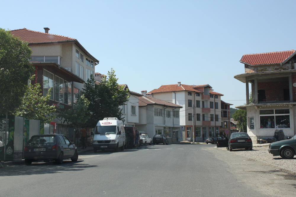 Along the main street of Dzhebel